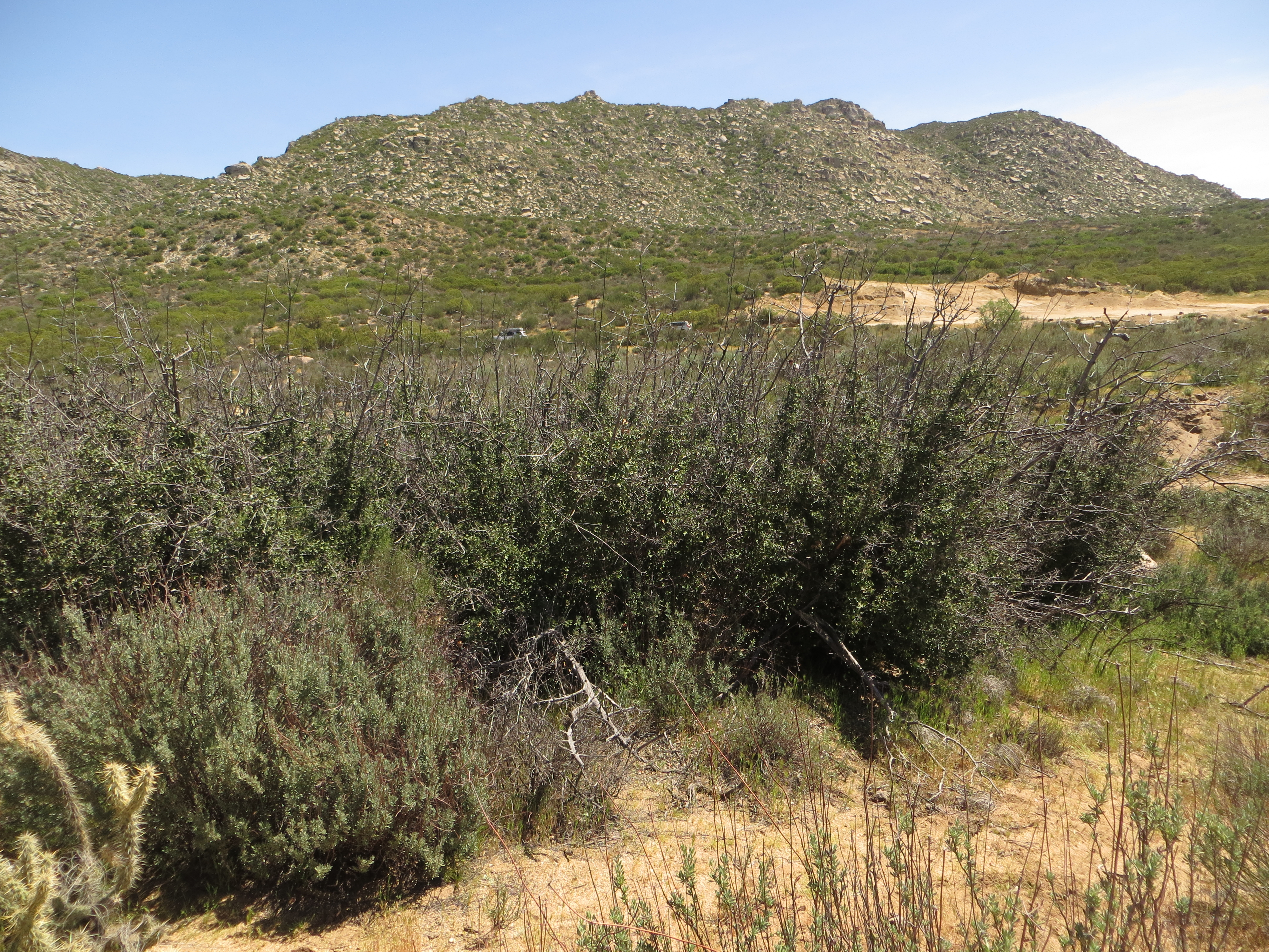 Group of Quercus palmeri clones growing in a cluster in Baja California.